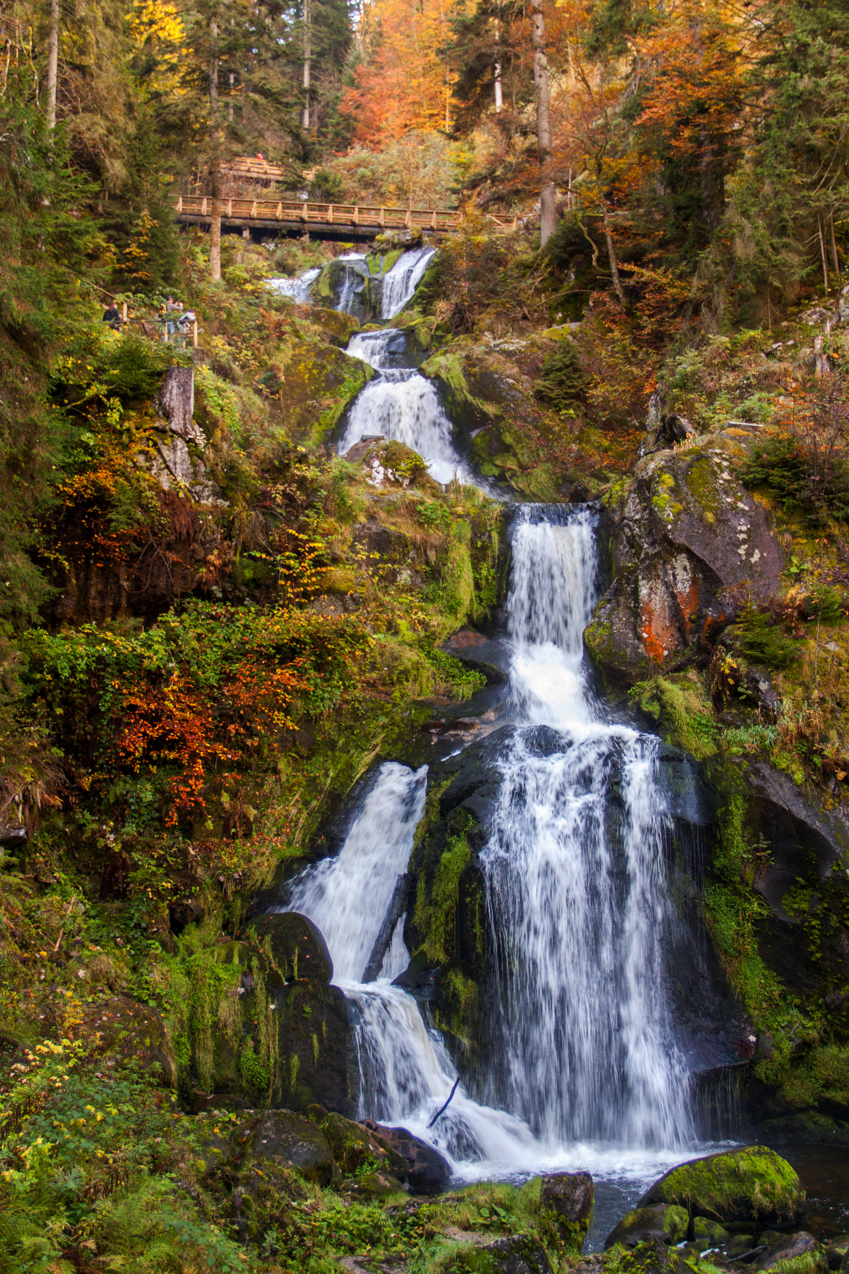 Triberg Waterfalls